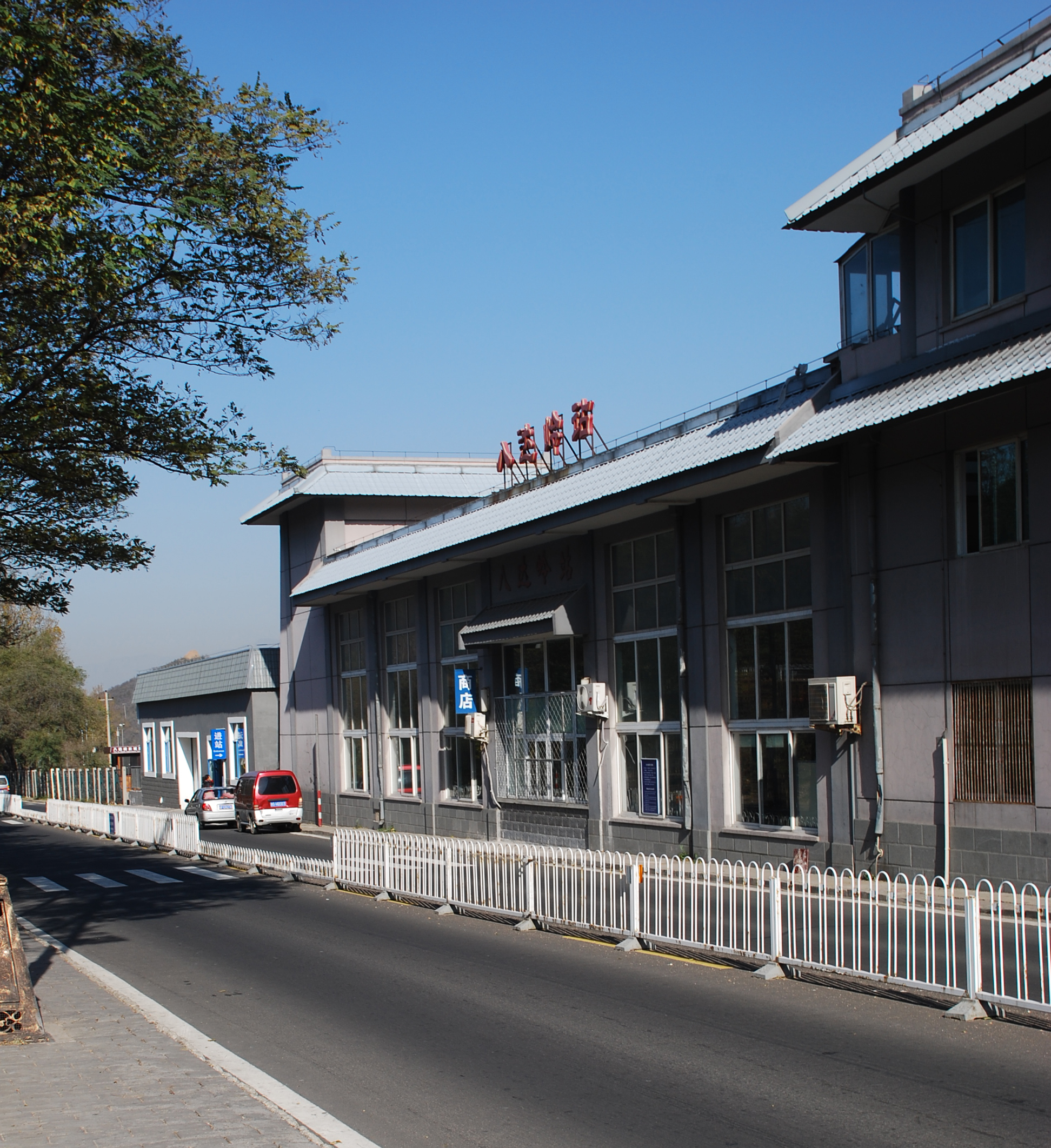 Badaling station, Beijing